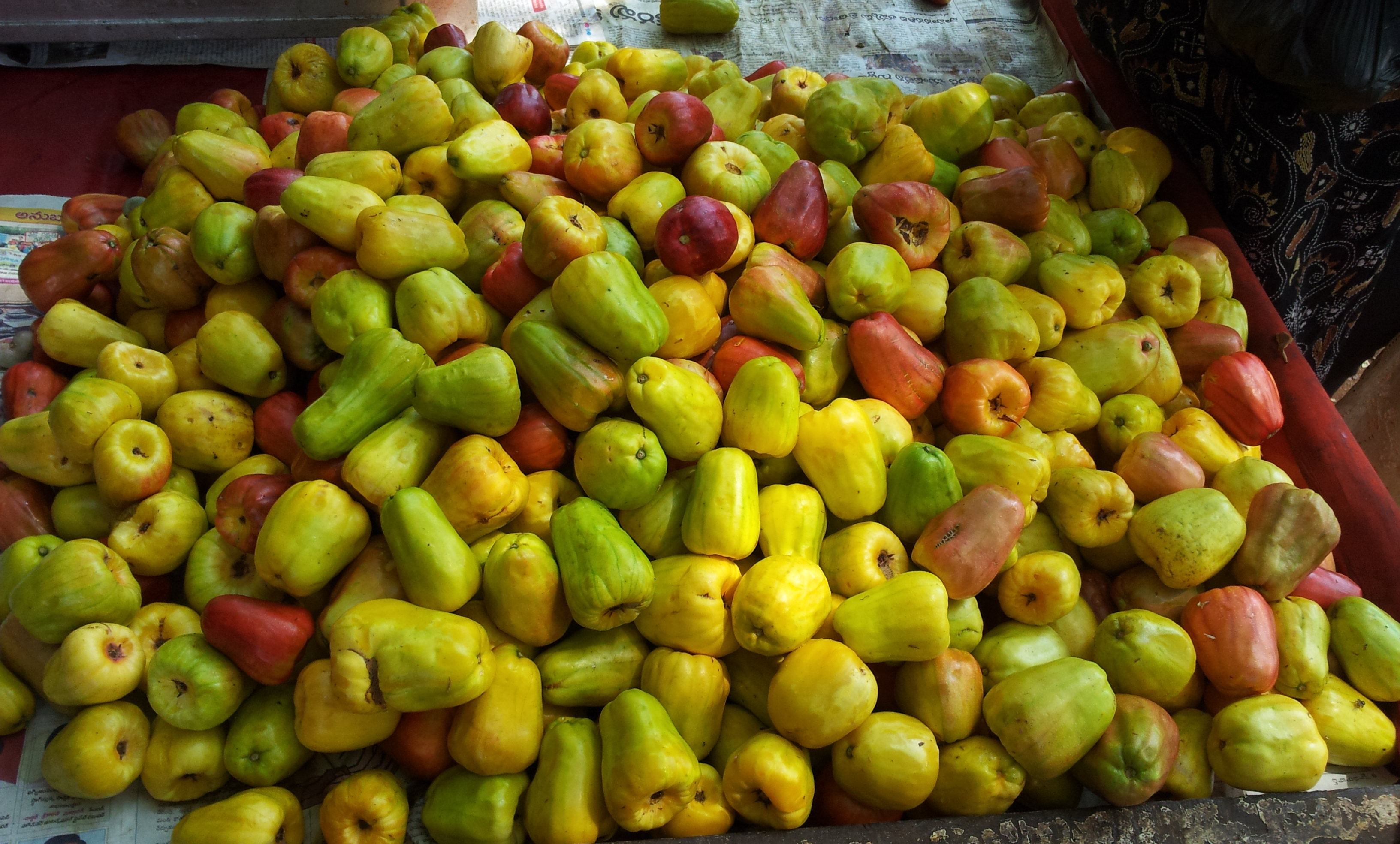 Cashew apples for sale near Sangareddy, Andhra Pradesh, India.